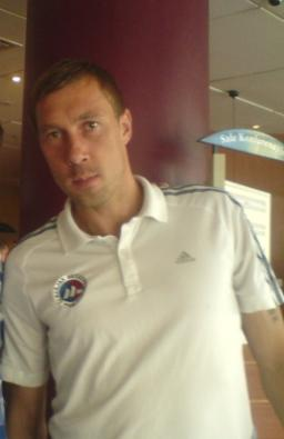 In Warsaw before match against Legia in European League 2012.